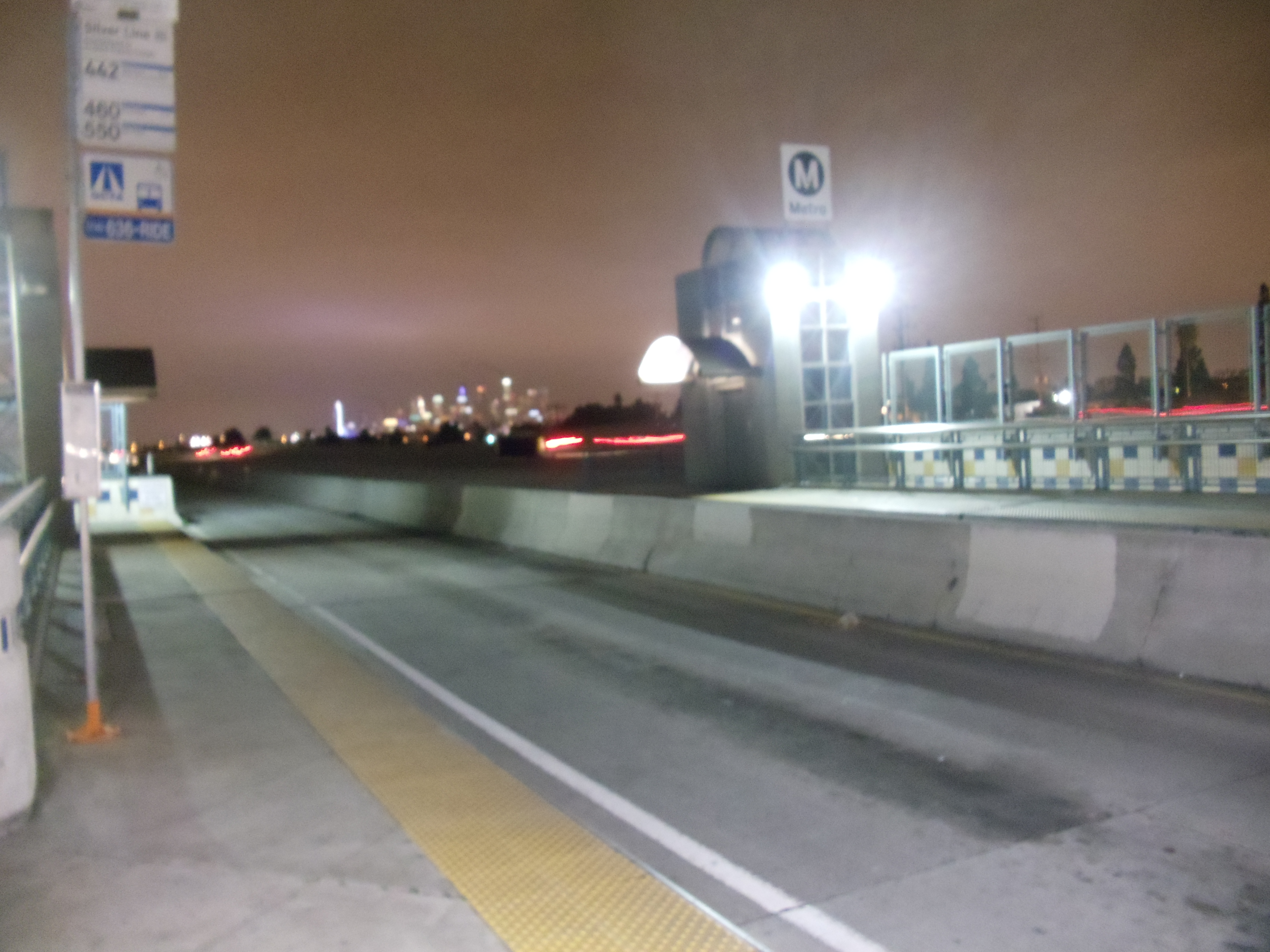 The north station entrance at the southbound platform of Slauson Silver Line Station.